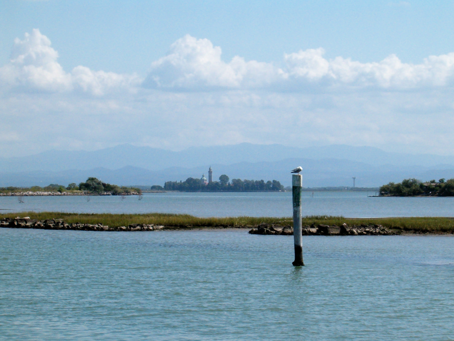 Barbana isle, Grado Lagoon, Grado (Province of Gorizia), Italy